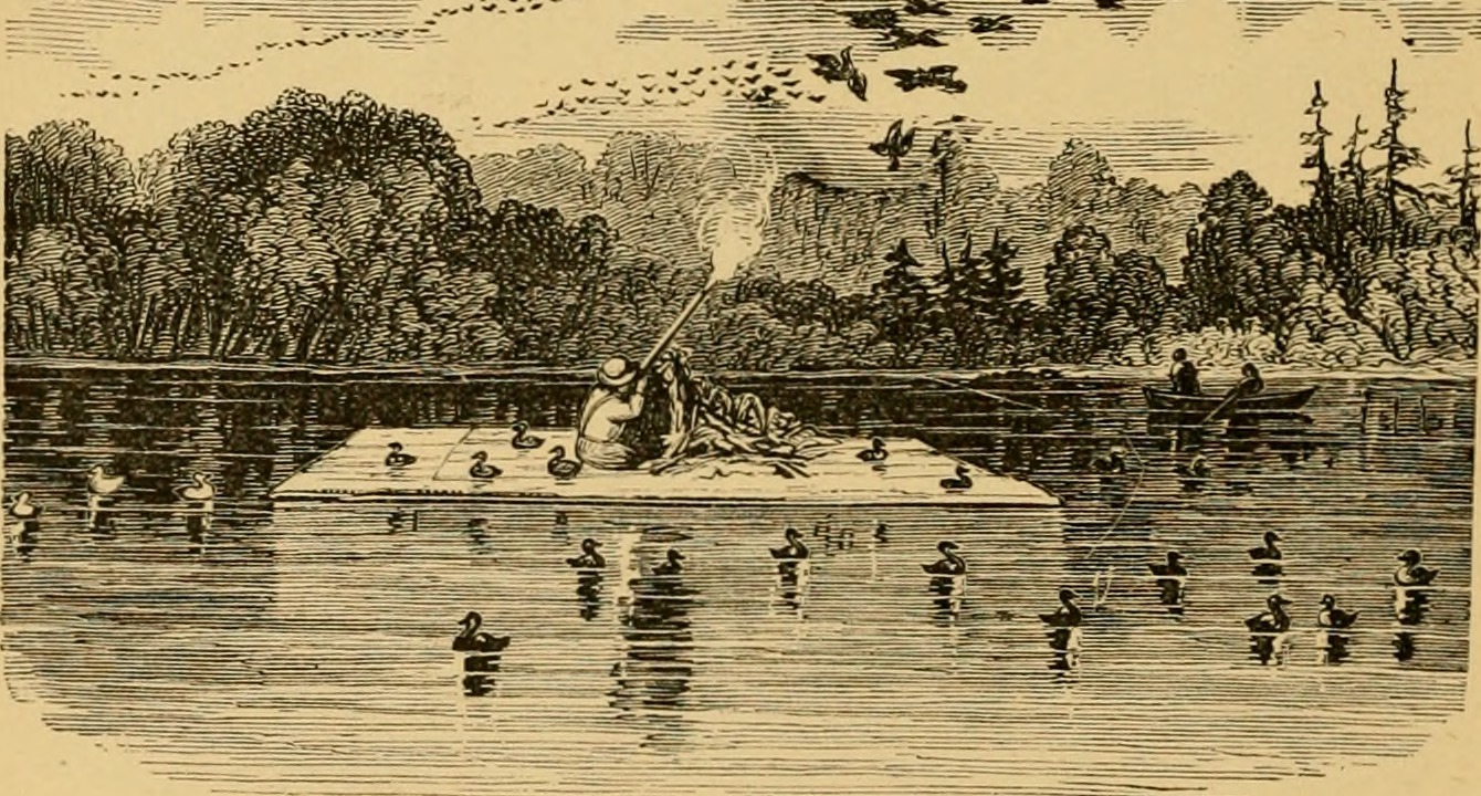 Sketch of sinbox. Identifier: americangamebird00murp Title: American game bird shooting Year: 1882 (1880s) Authors: Murphy, John Mortimer Subjects: Game and game-birds Hunting Publisher: New York, Orange Judd